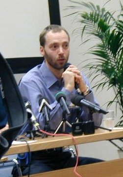 Mika Myllylä